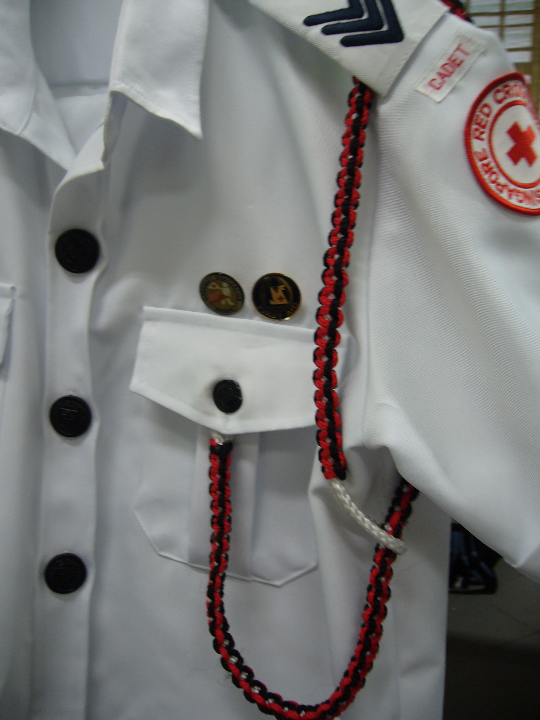 A lanyard forming part of the uniform of a Red Cross Youth (Singapore) cadet.